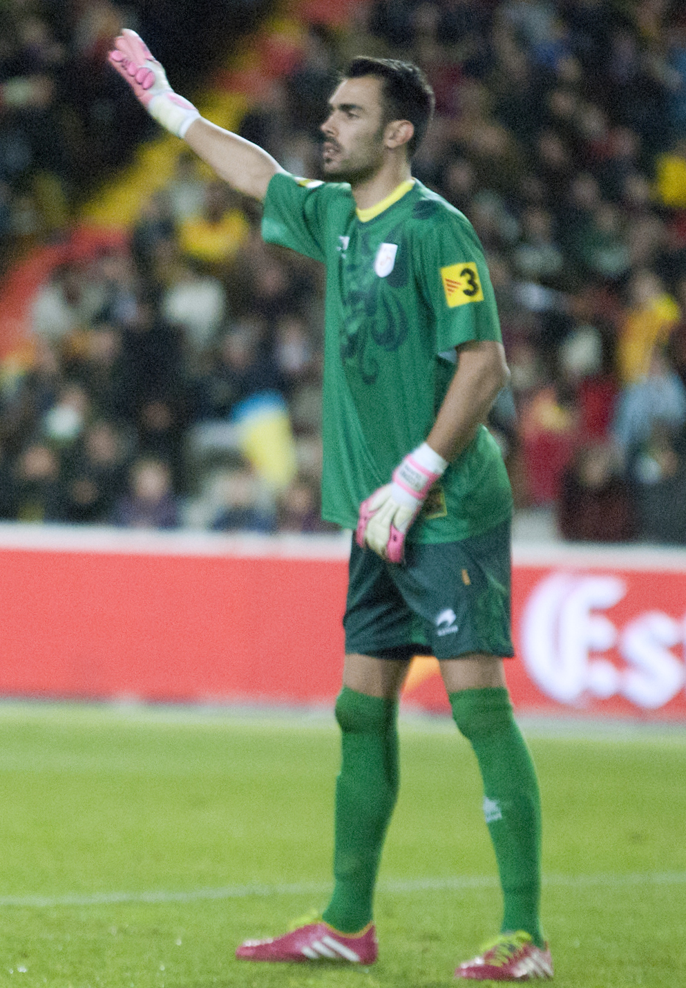 Spanish football goalkeeper Jordi Codina during friendly match Catalonia vs. Cape Verde